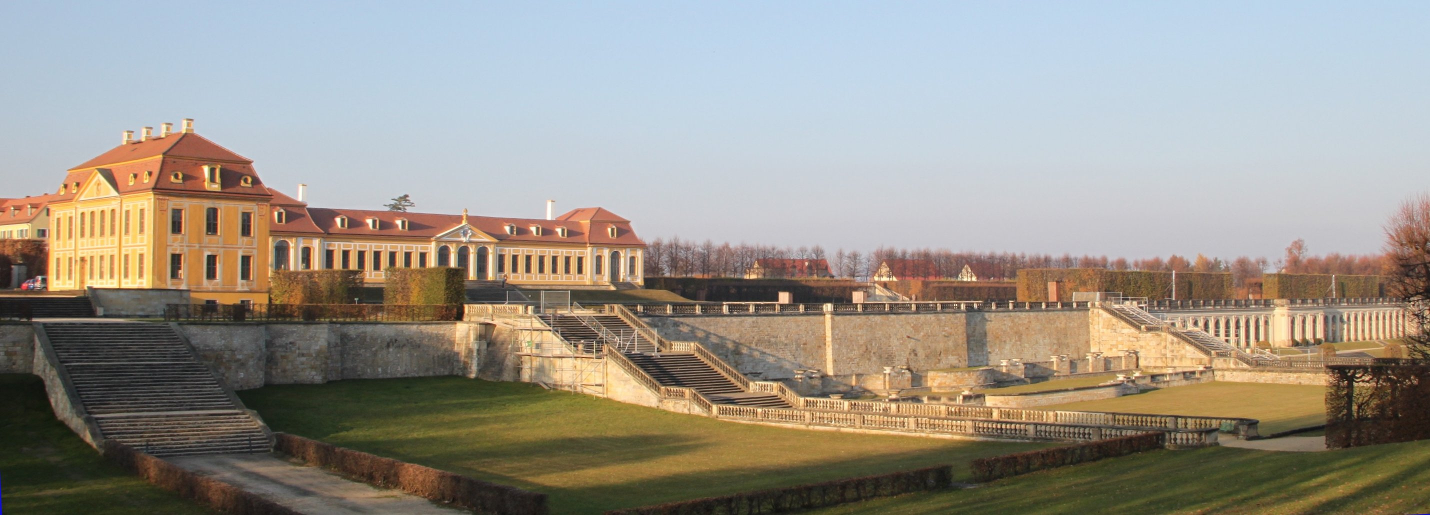 Friedrichschlößchen and Baroque Garden, Großsedlitz near Dresden